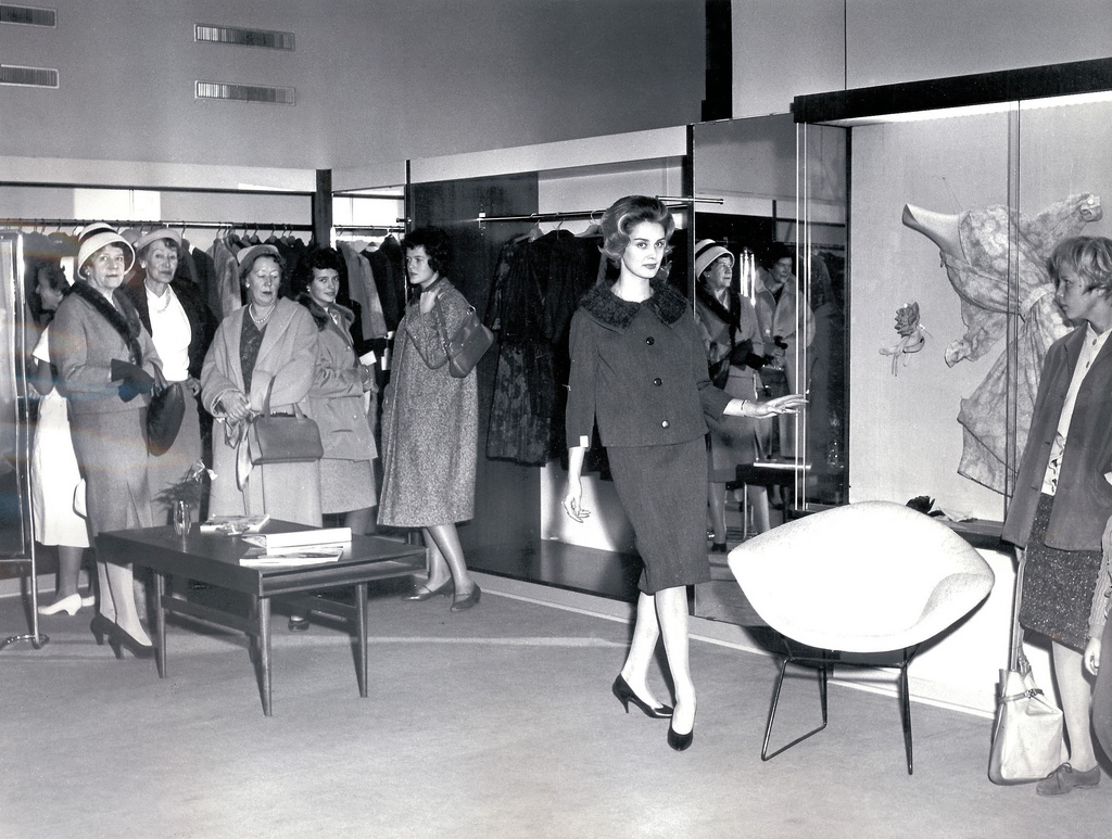 Stockmann Boutique’s fashion show in 1959.